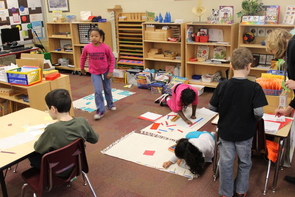 A Montessori classroom in Indiana, USA.